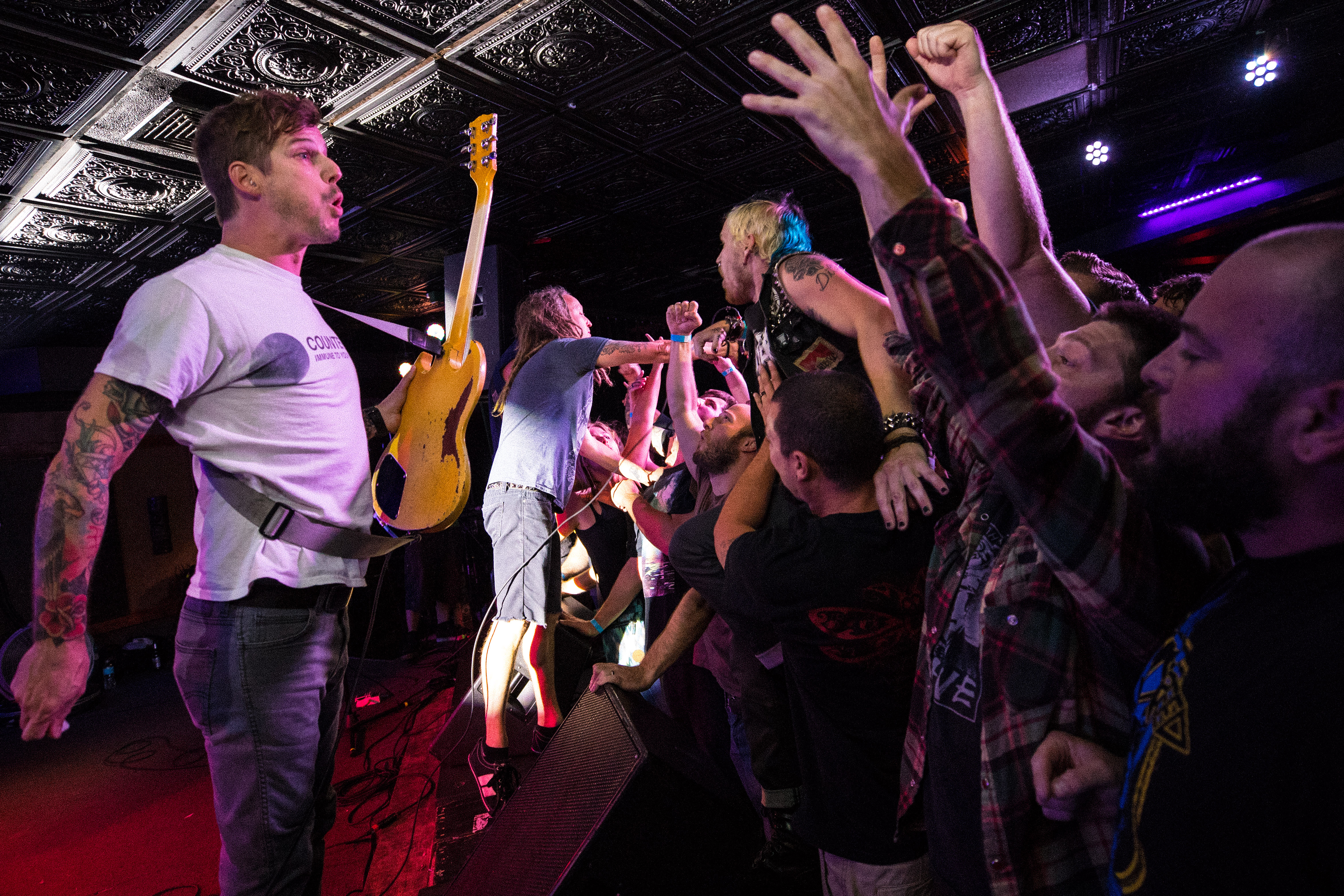 Strike Anywhere, October 7, 2016. Virginia Beach, VA. Photographer: Andy McKay Website: somnifacient.us